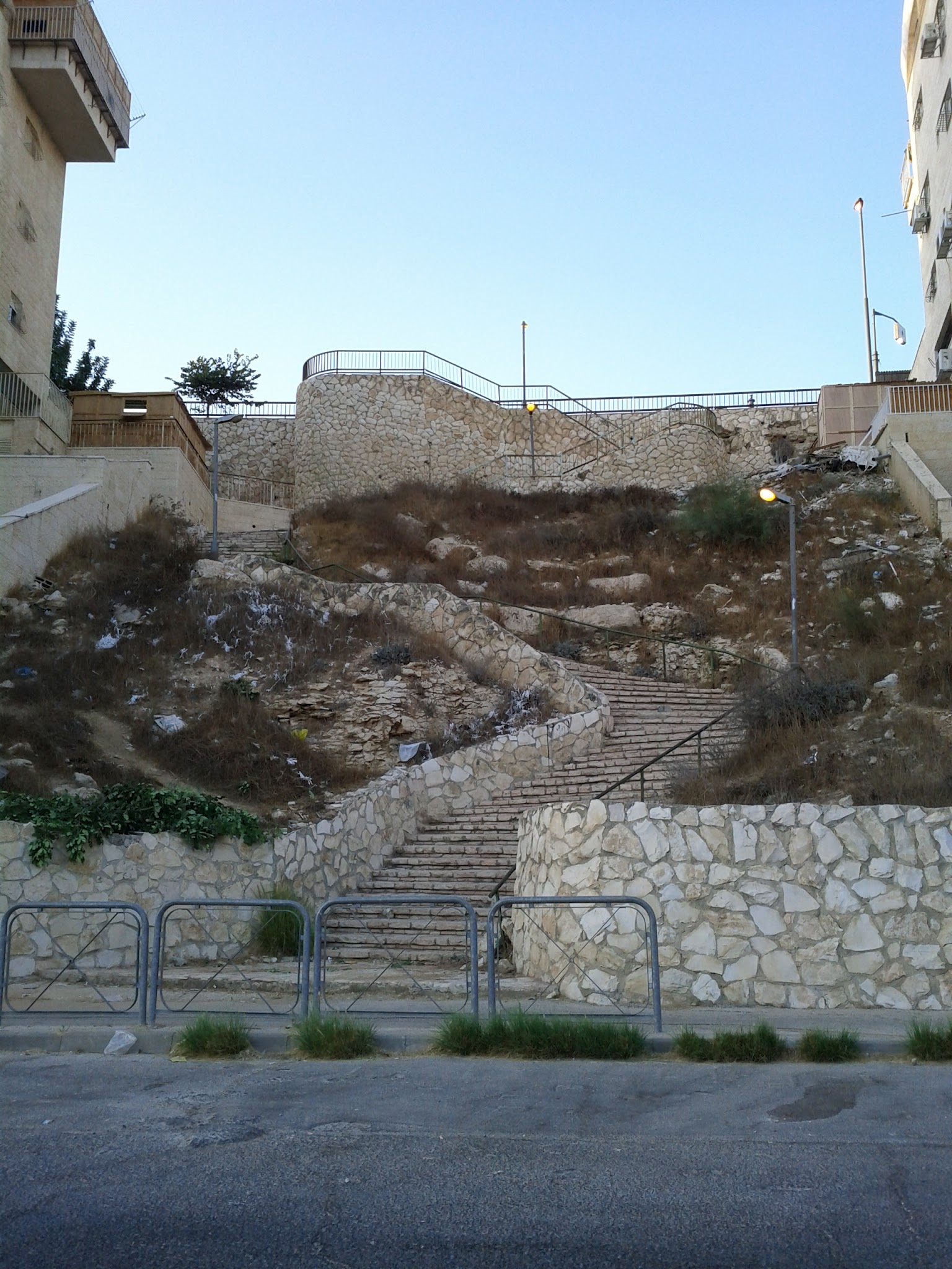 Owing to the hilly nature of Har Nof, steps are often used to get from one street to another.